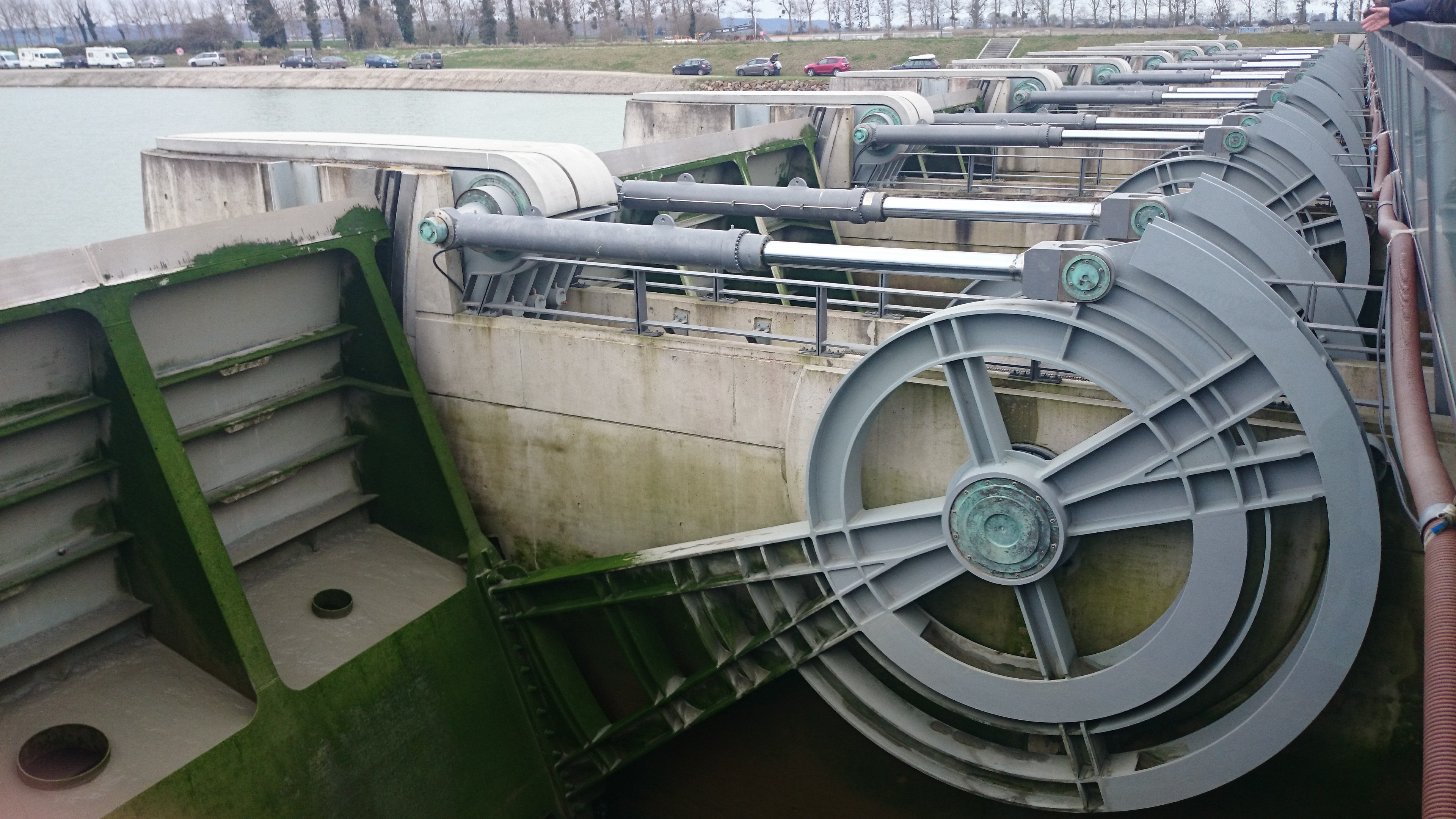 Partial view of the gates aimed to flush the bed of the Couesnon river, part of the "Saint-Michel" Project to give back it insular nature to the Mont Saint-Michel.